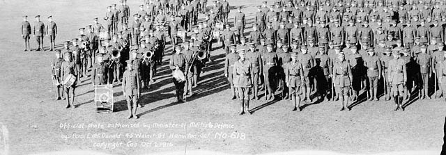 157th Battalion, CEF at camp Borden in 1916